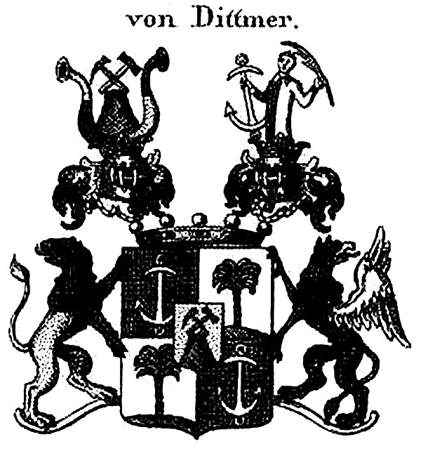 Coat of arms of Freiherren von Dittmer family (1800)